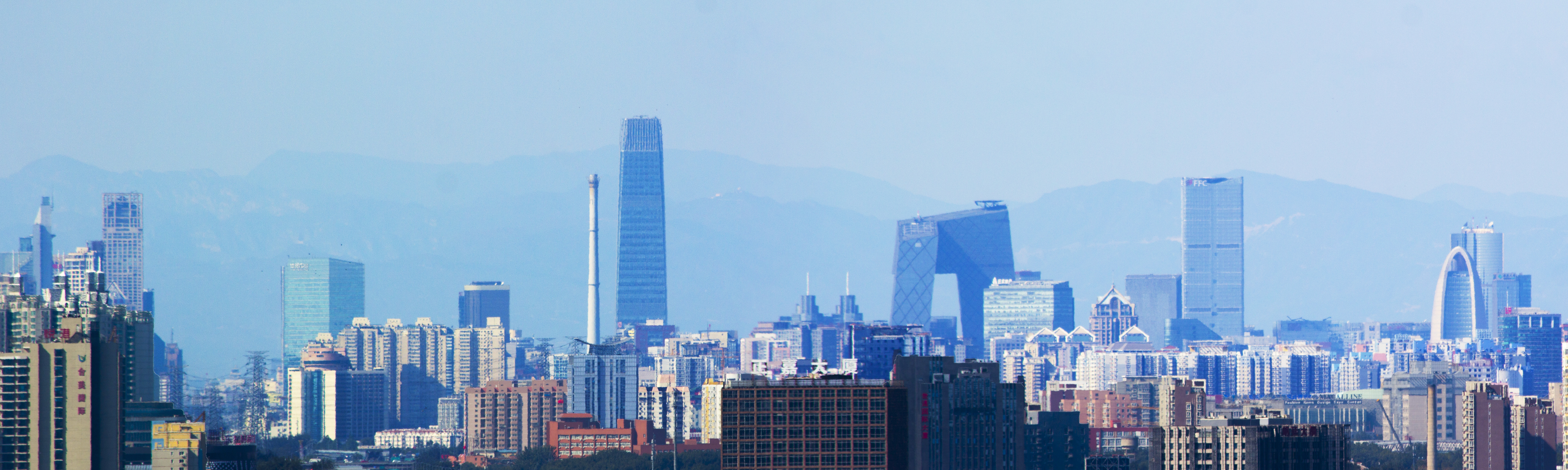 Beijing central business district view from Tongzhou